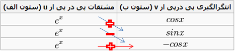 Extended Signing method in Tabular integration by parts